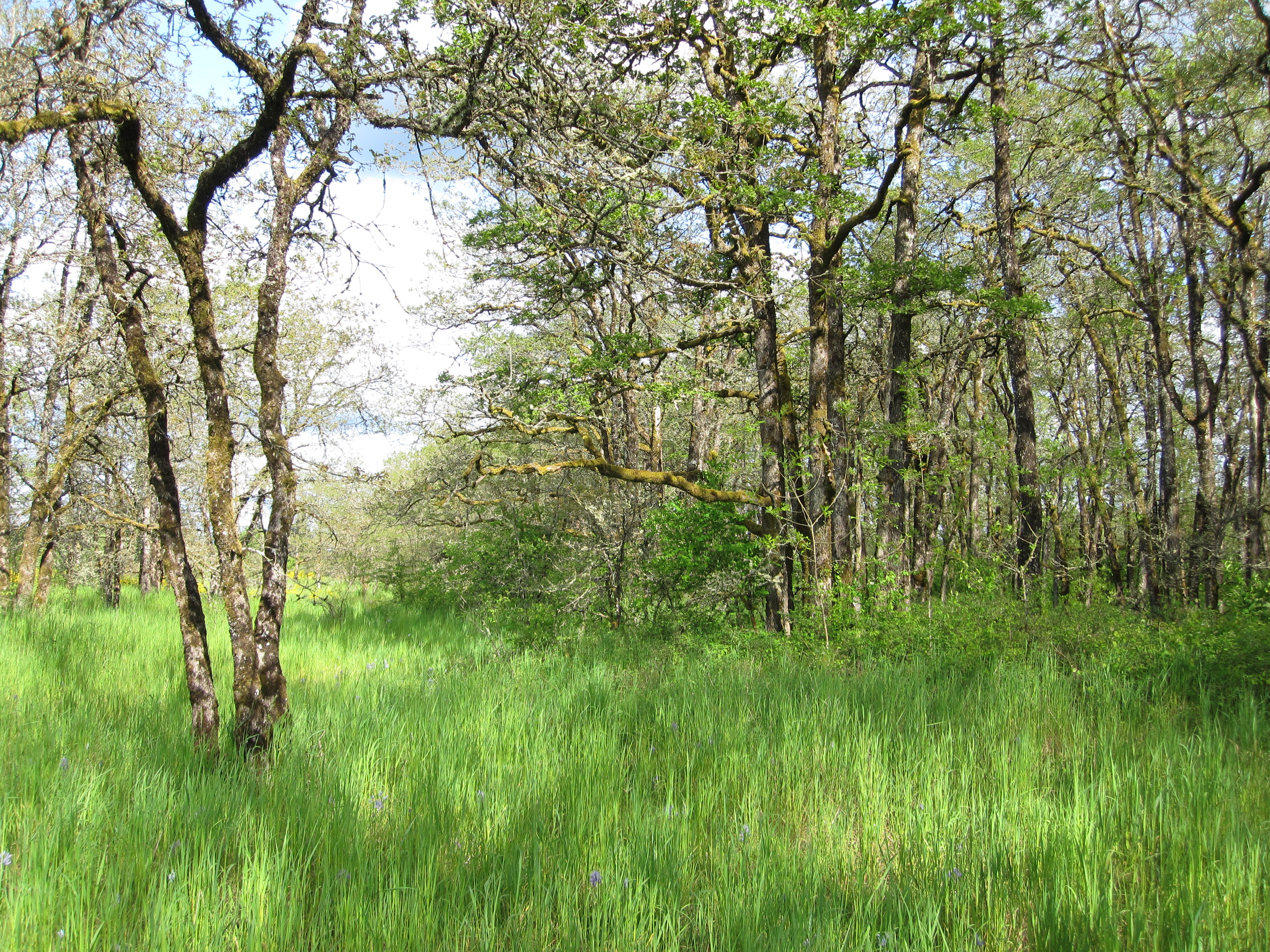 Garry oaks at the Scatter Creek Unit (North Unit)